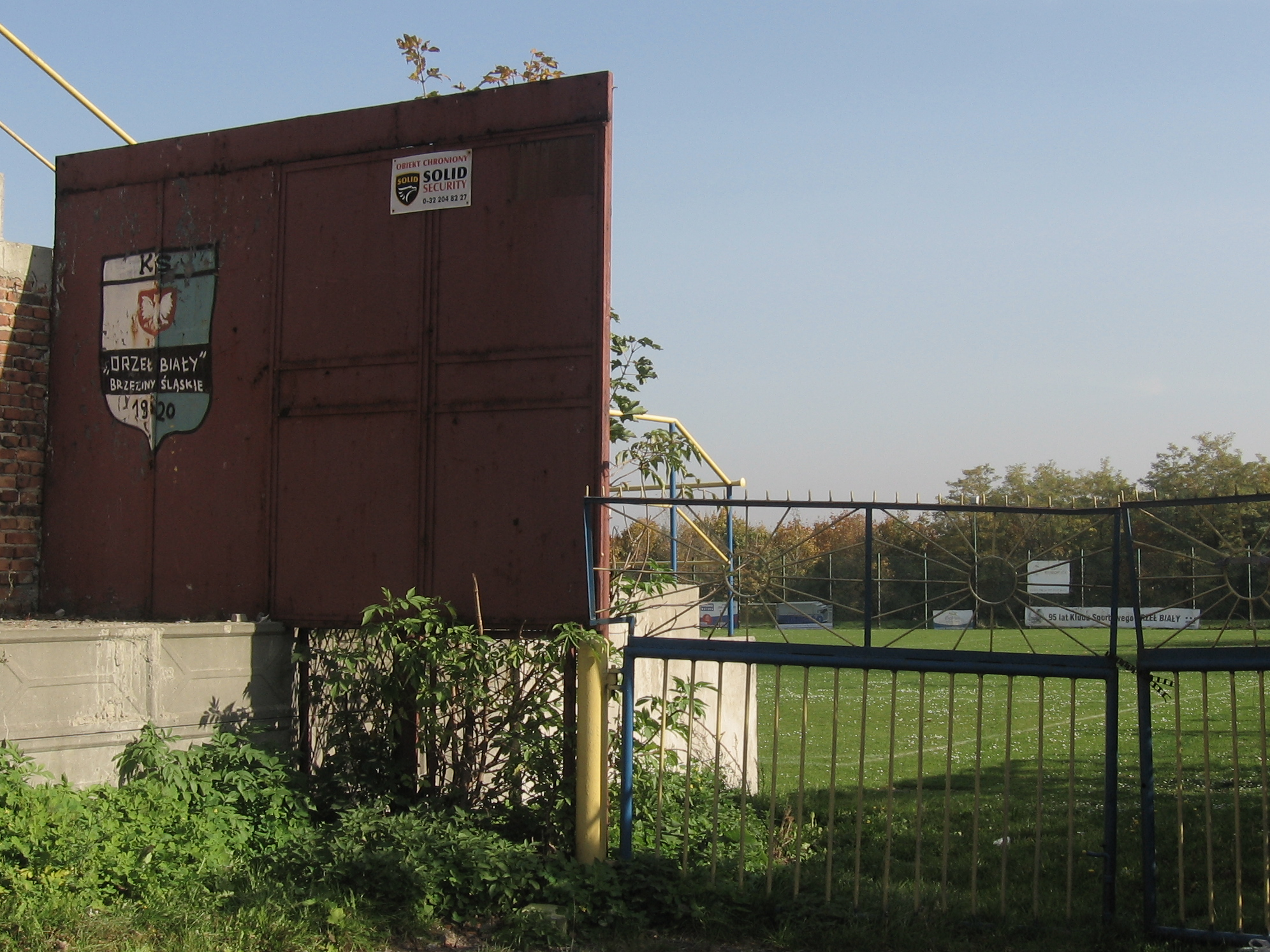 The football pitch of Orzeł Biały club in Brzeziny Śląskie, Piekary Śląskie, Poland.